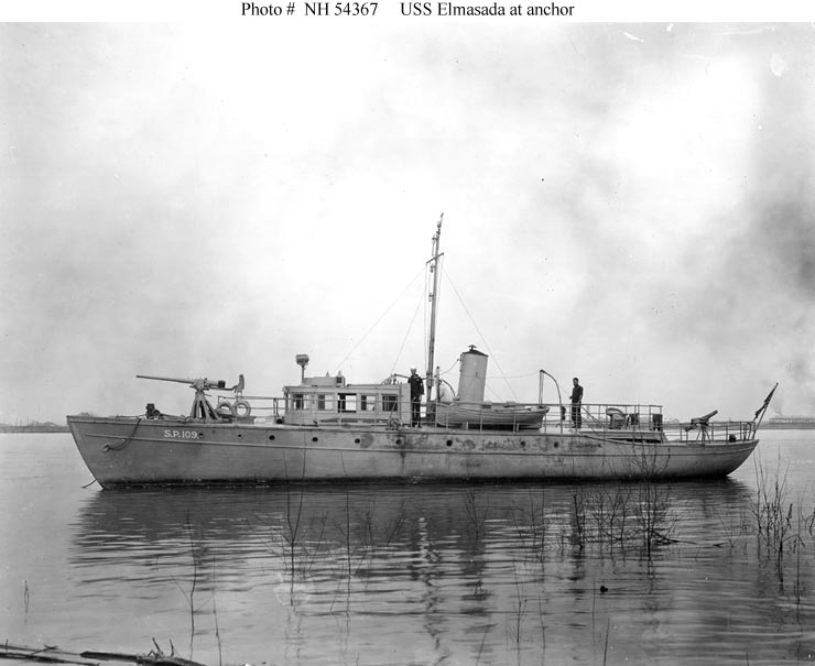 United States Navy patrol boat USS Elmasada (SP-109)